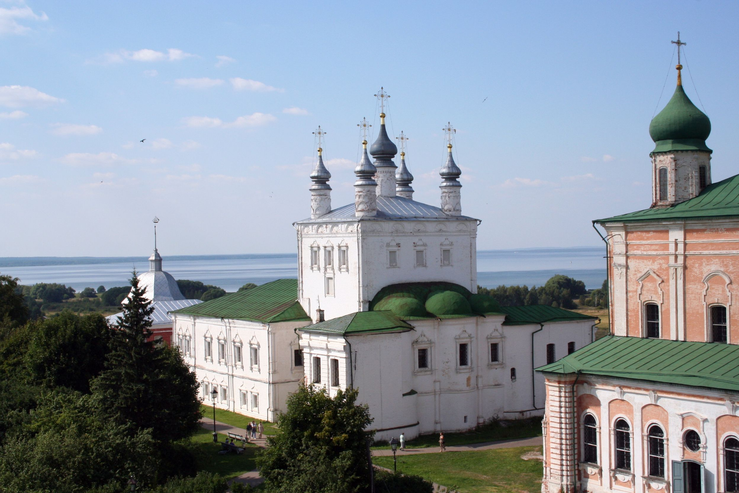 Goritsky Monastery yard. Pereslavl-Zalessky. In a background – Lake Plescheyevo (August, 2005)